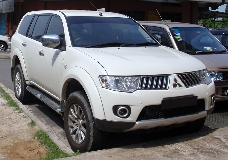 This is a new 4WD by Mitsubishi. So far I saw only two, one Pearl White and one Platinum Beige Metallic. For me this is Mitsubishi's version of the Toyota Fortuner. This car was spotted below Wisma Prudential, at Hilltop. I think the owner works somewhere near, as his/ her car is always around this area.